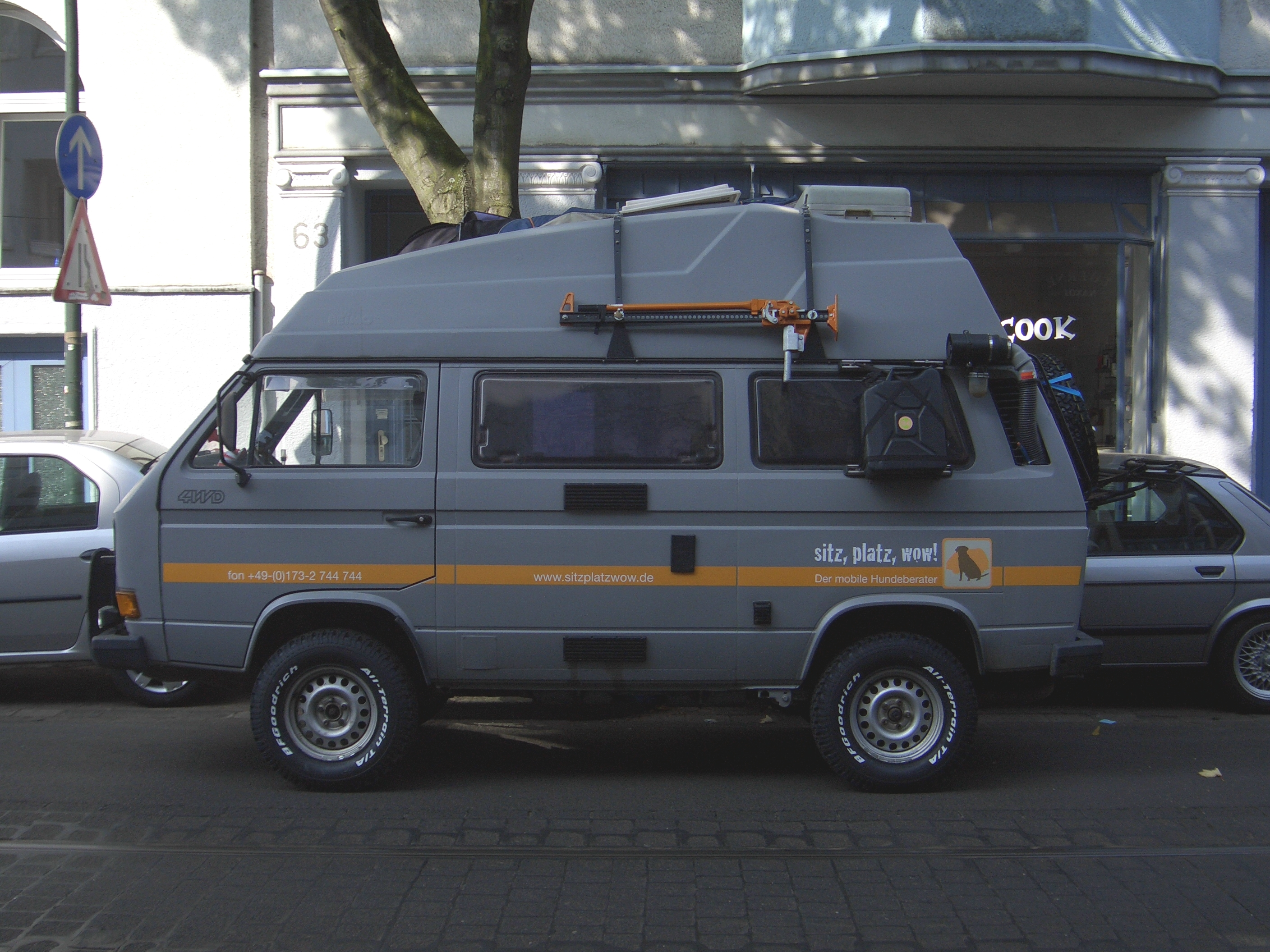 VW (Bus) T3 Caravelle syncro, 1984-1992, seen in Düsseldorf, Germany